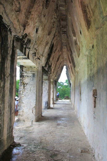 Corbel Arch Hall in the Palace at Palenque